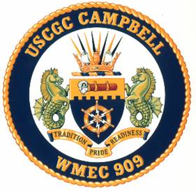 Coat of Arms of the United States Coast Guard Cutter USCGC Campbell (WMEC-909)